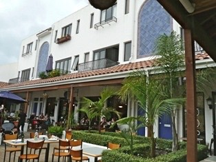 Cassabella Lane